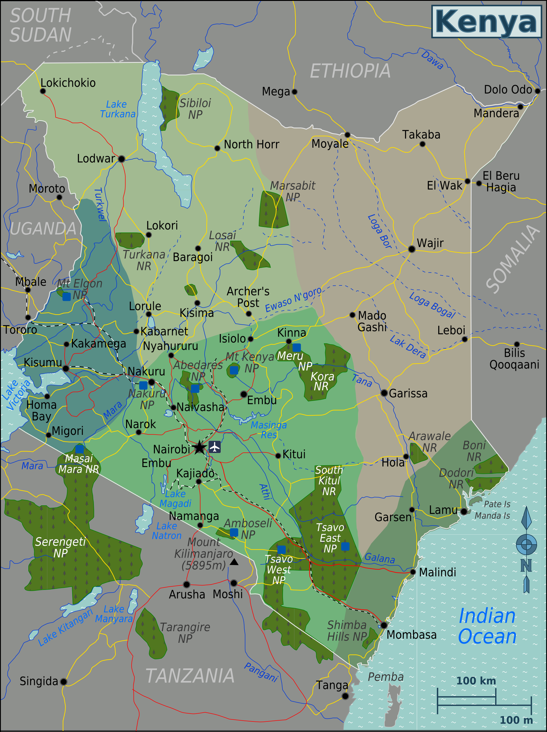 Map of Kenya. Map of Kenya, Kenya Map of: Kenya¤.